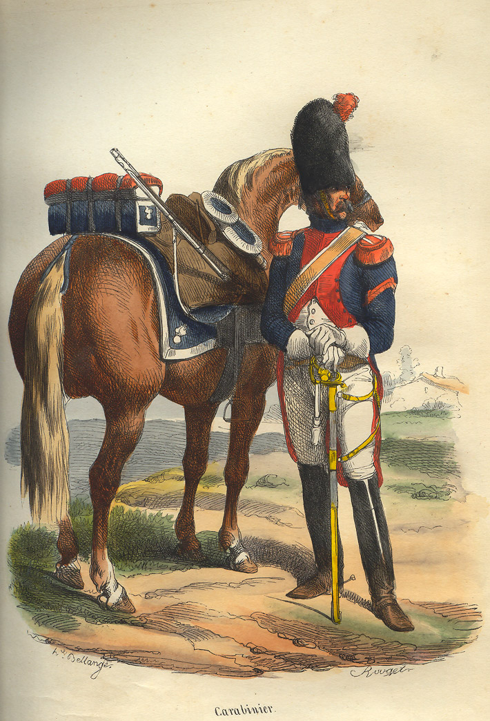 Carabinier of 1810 from the Grande Armée. From book of P.-M. Laurent de L`Ardeche «Histoire de Napoleon», 1843